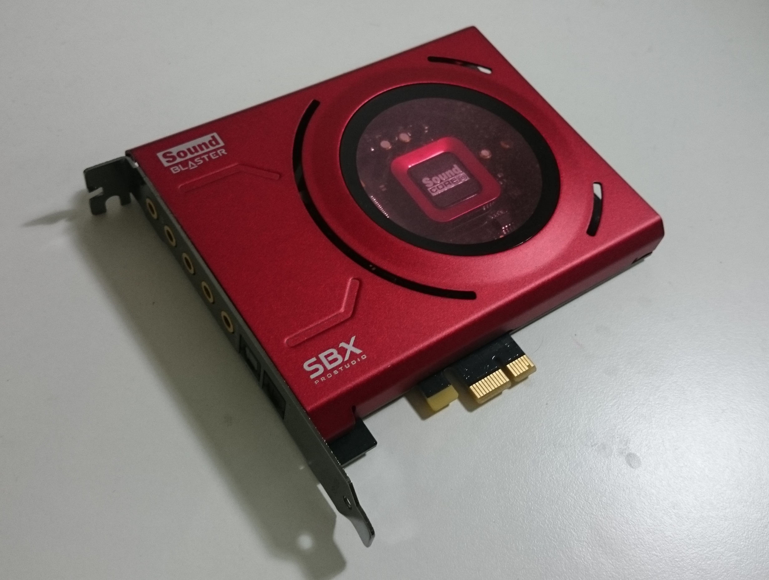 A photo of a Sound Blaster Z PCIe sound card.